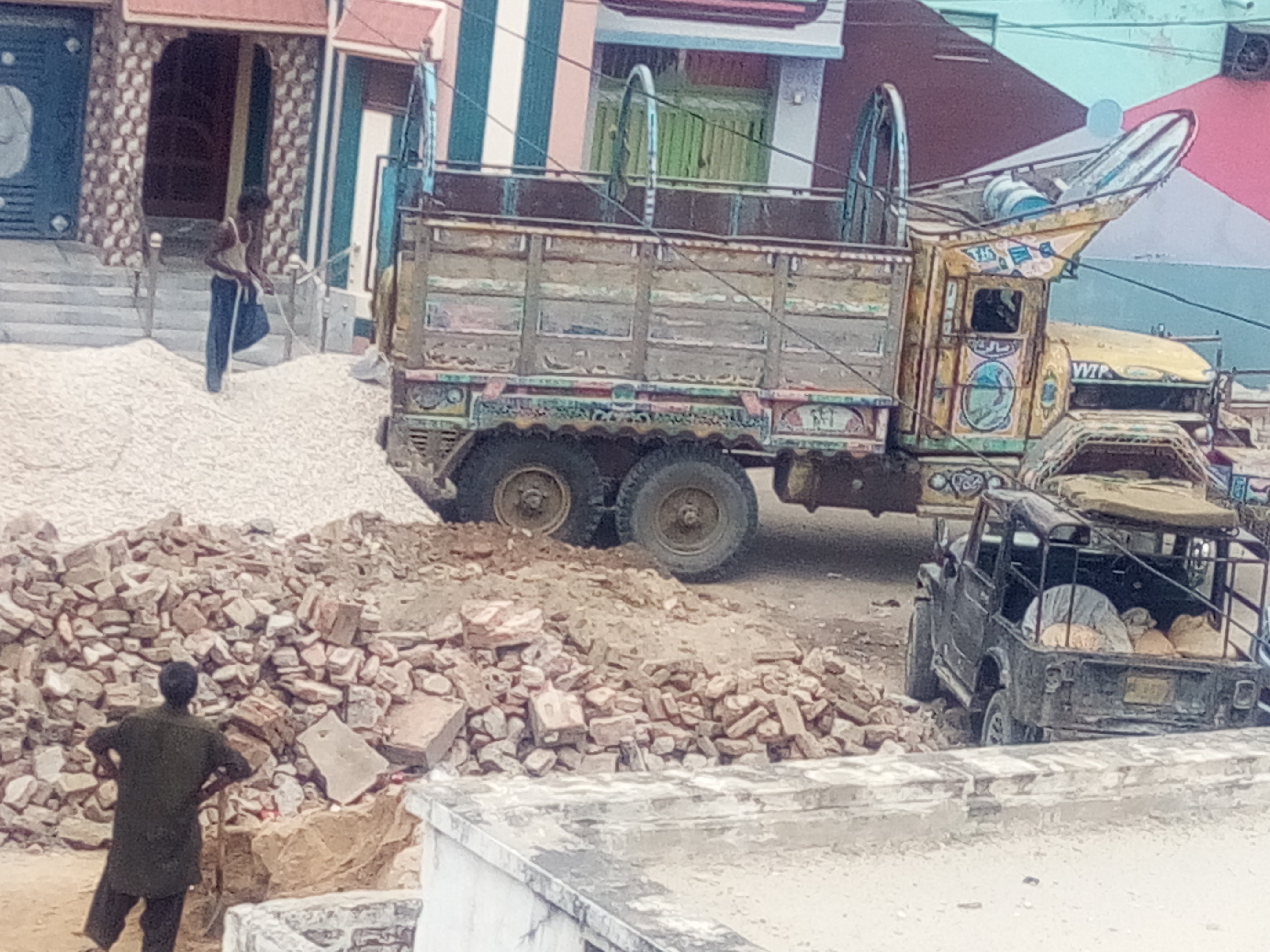 A Kekra truck unloading construction material in Islamkot